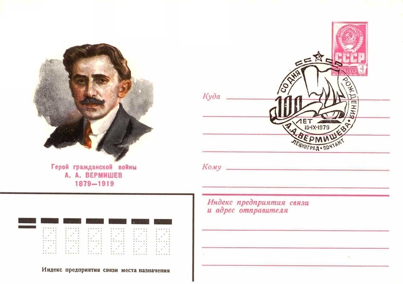 1979 Soviet postal cover with portrait of Aleksandr Vermishev